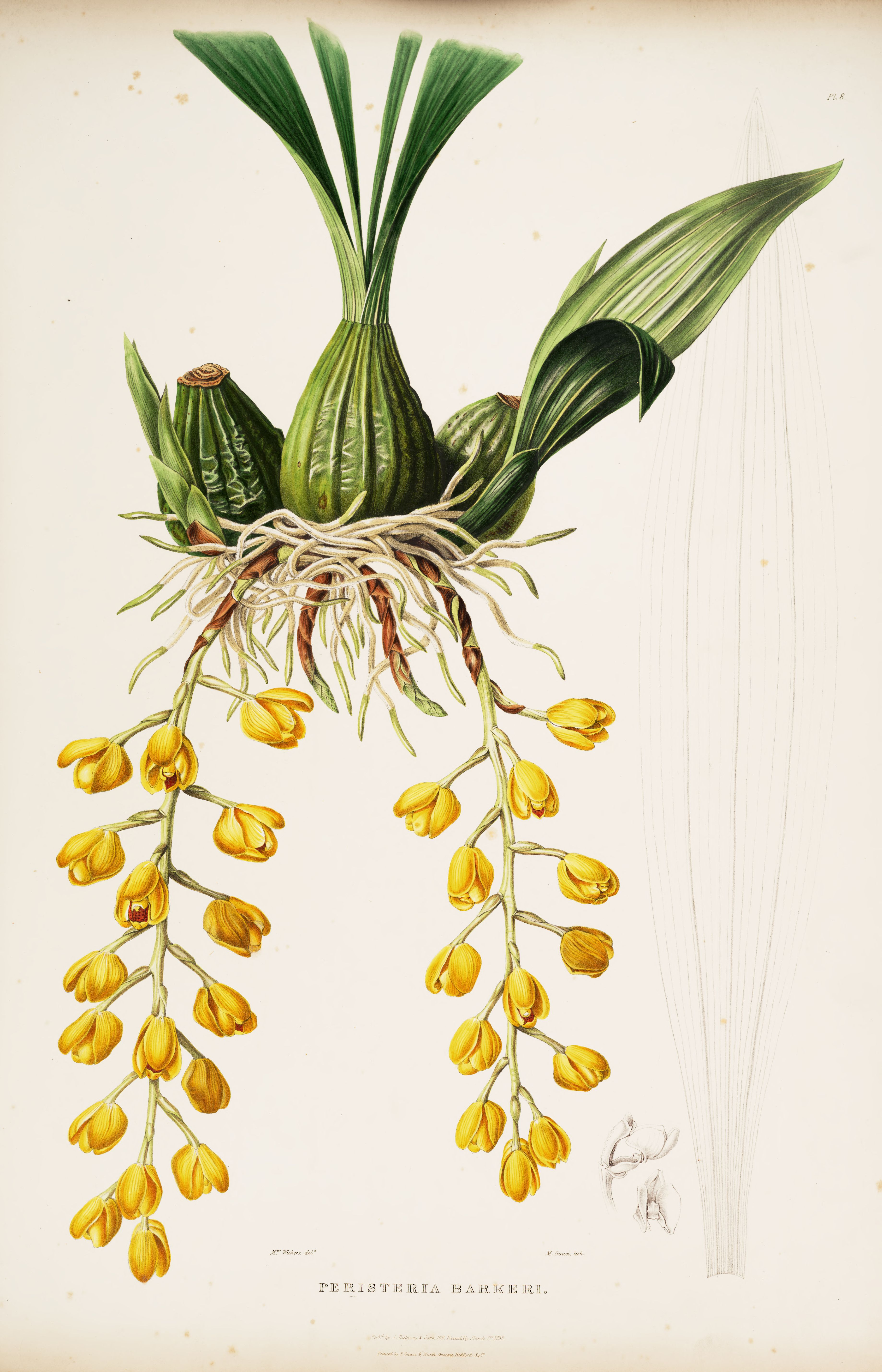 Illustration of Acineta barkeri (as syn. Peristeria barkeri)